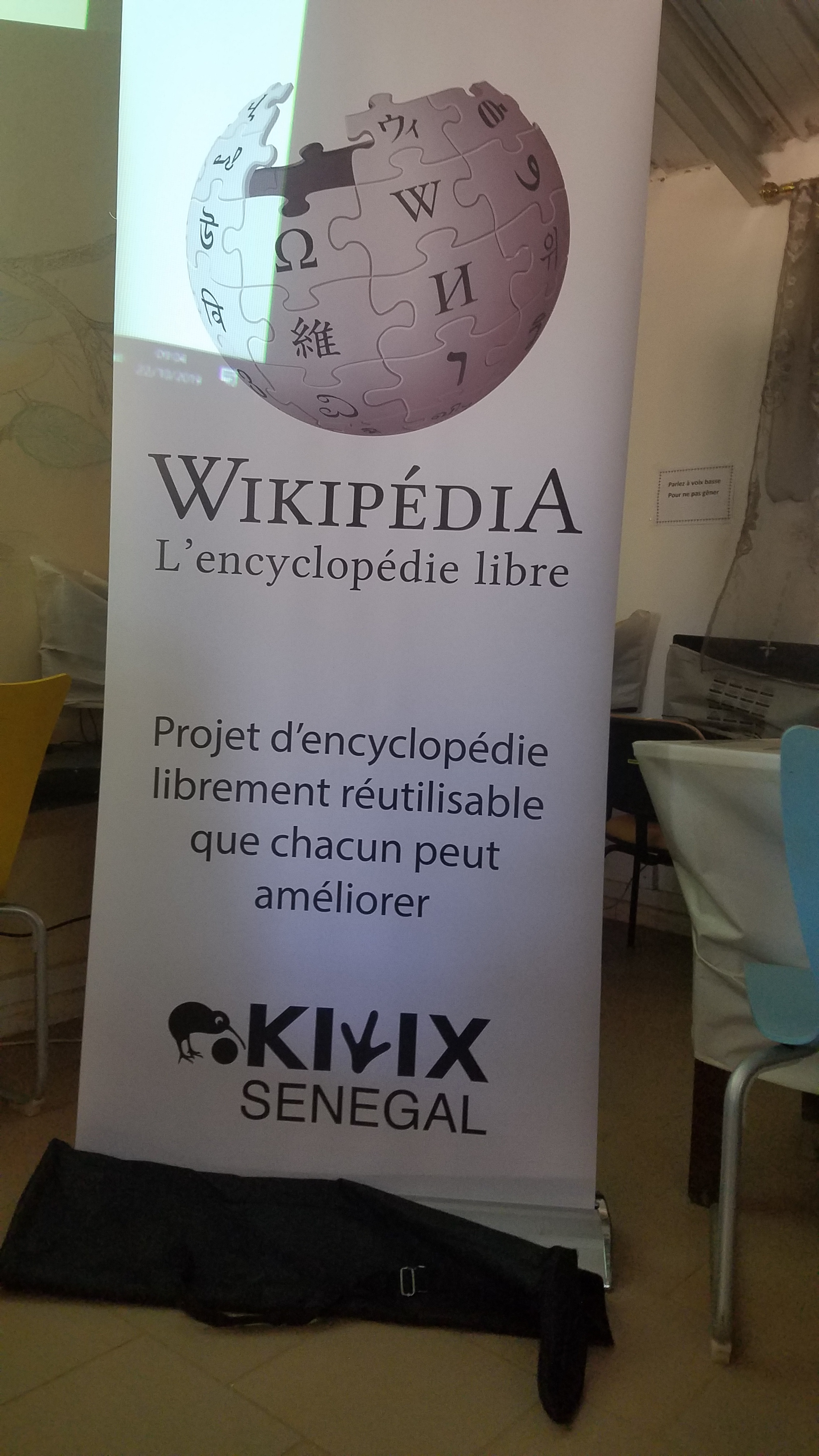 Pictures taken during one of the Kiwix program (offline Wikipedia) presentations given by the ambassadors in training. The presentation at the Lycée Fahu (Fahu high school) was given on October 22 2019 in front of 10 teachers and 30 students.